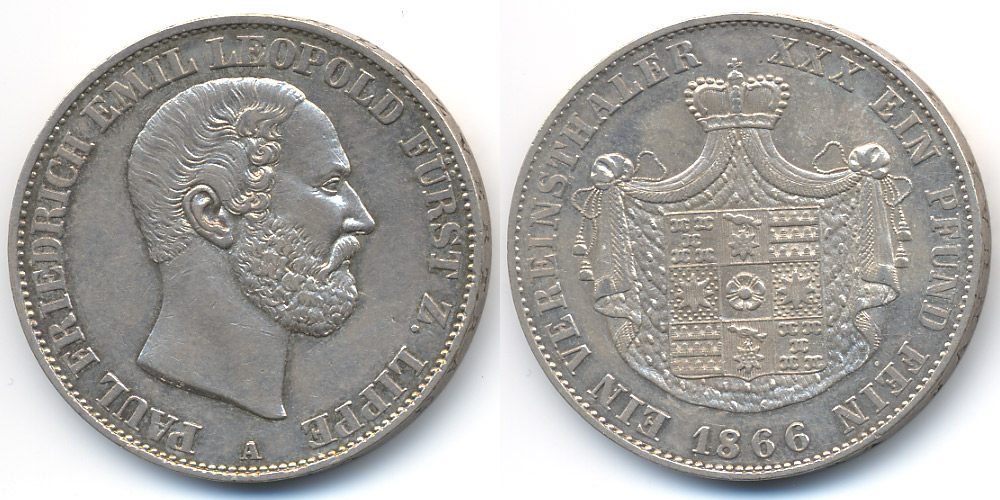 Coin of the Principality of Lippe: Vereinsthaler, 1866